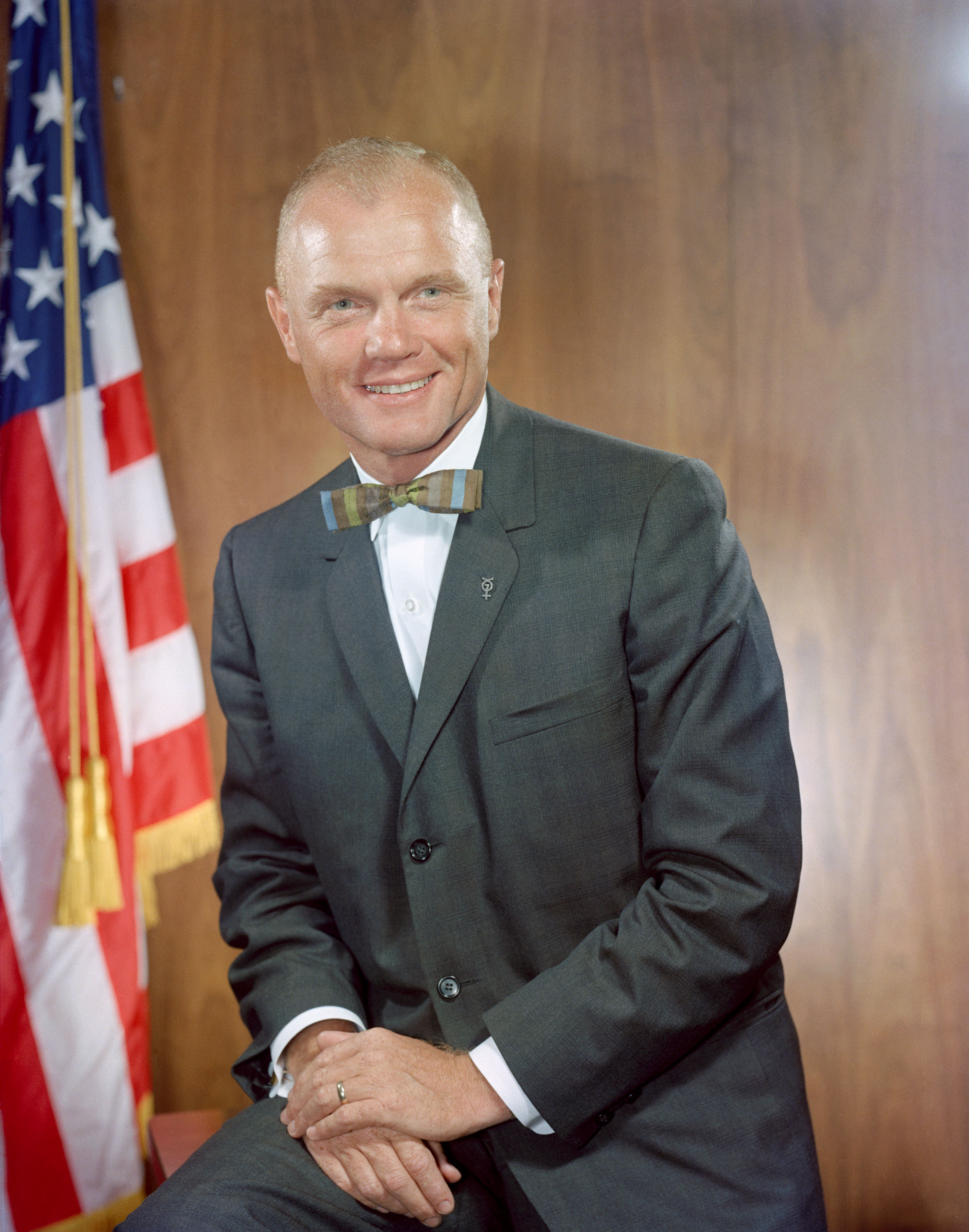 Official portrait of astronaut John H. Glenn, Jr.